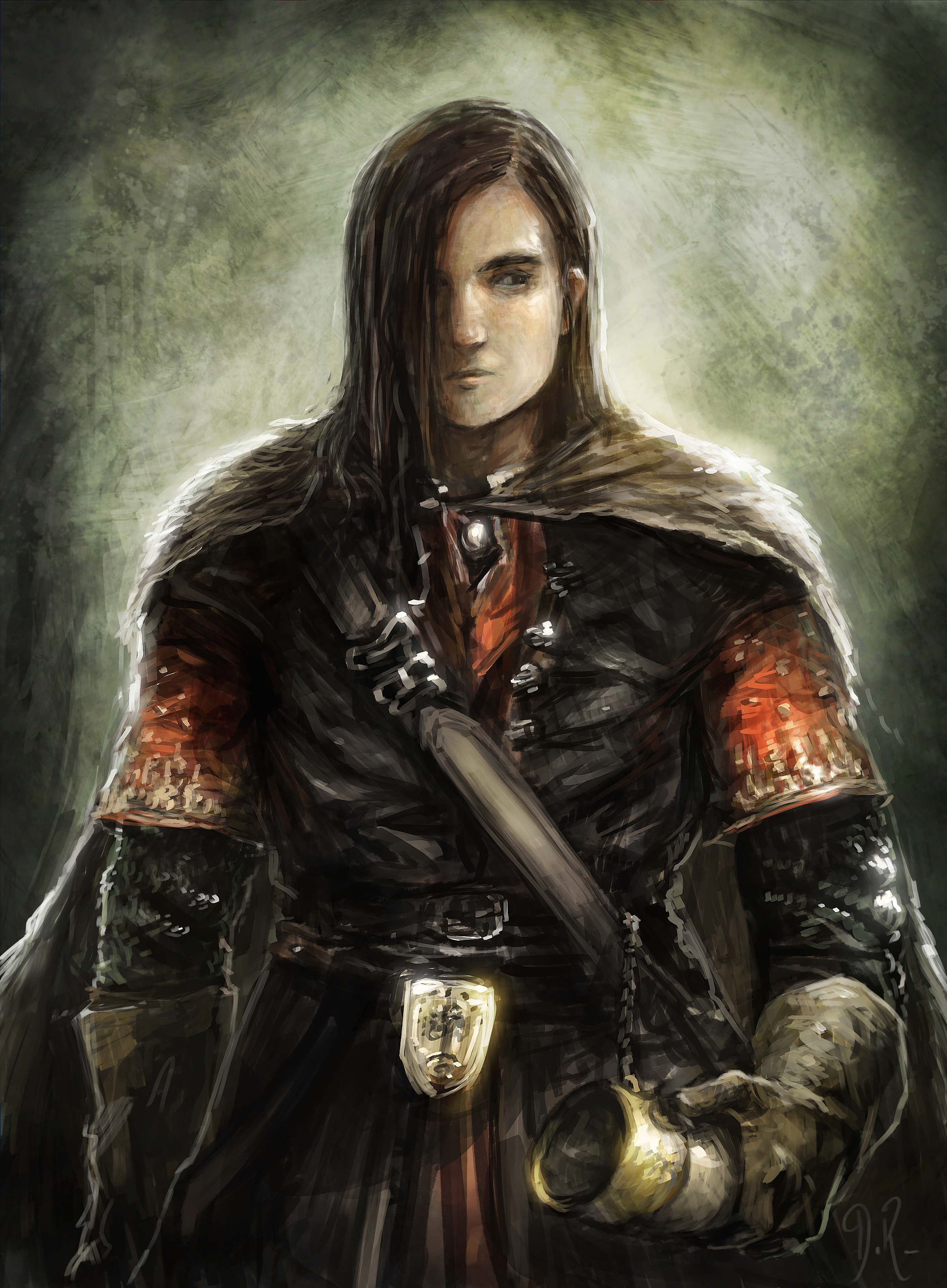 This picture depict a character inspired from the depictions of 'Boromir' , a fictive character created by Tolkien in the famous and classic book trilogy fantasy 'The Lord of the Ring' . It's a personnal fan-art piece. technic aspect : a speedpainting done with the software Krita 2.4, on Kubuntu 11.10 using a wacom tablet.